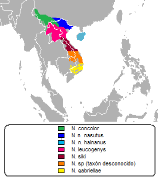 Nomascus subspecies